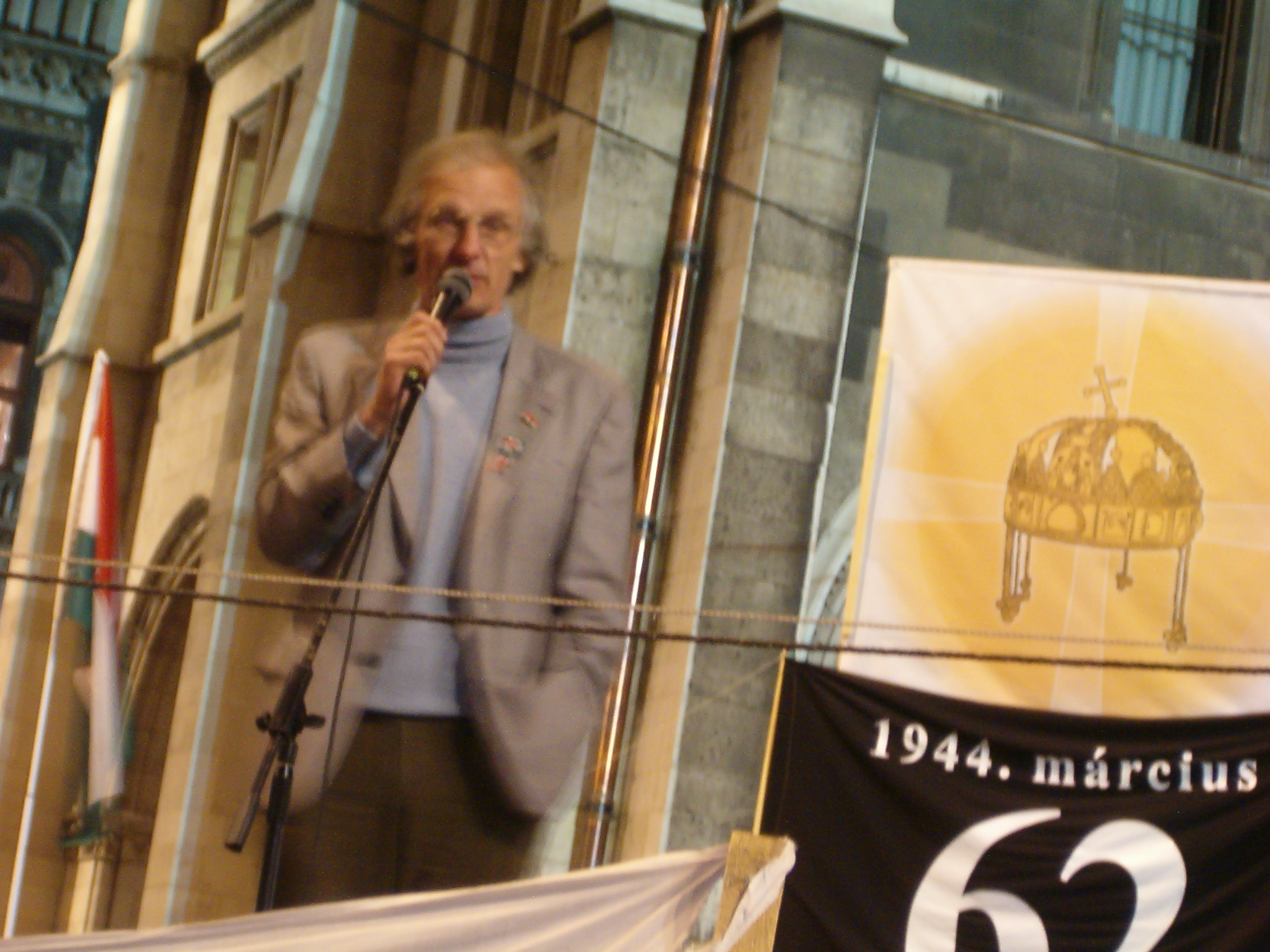 2006 anti-government protest, Kossuth square, Budapest, Hungary László Gonda, orator of MNB 2006 (Hungarian National Comittee 2006).